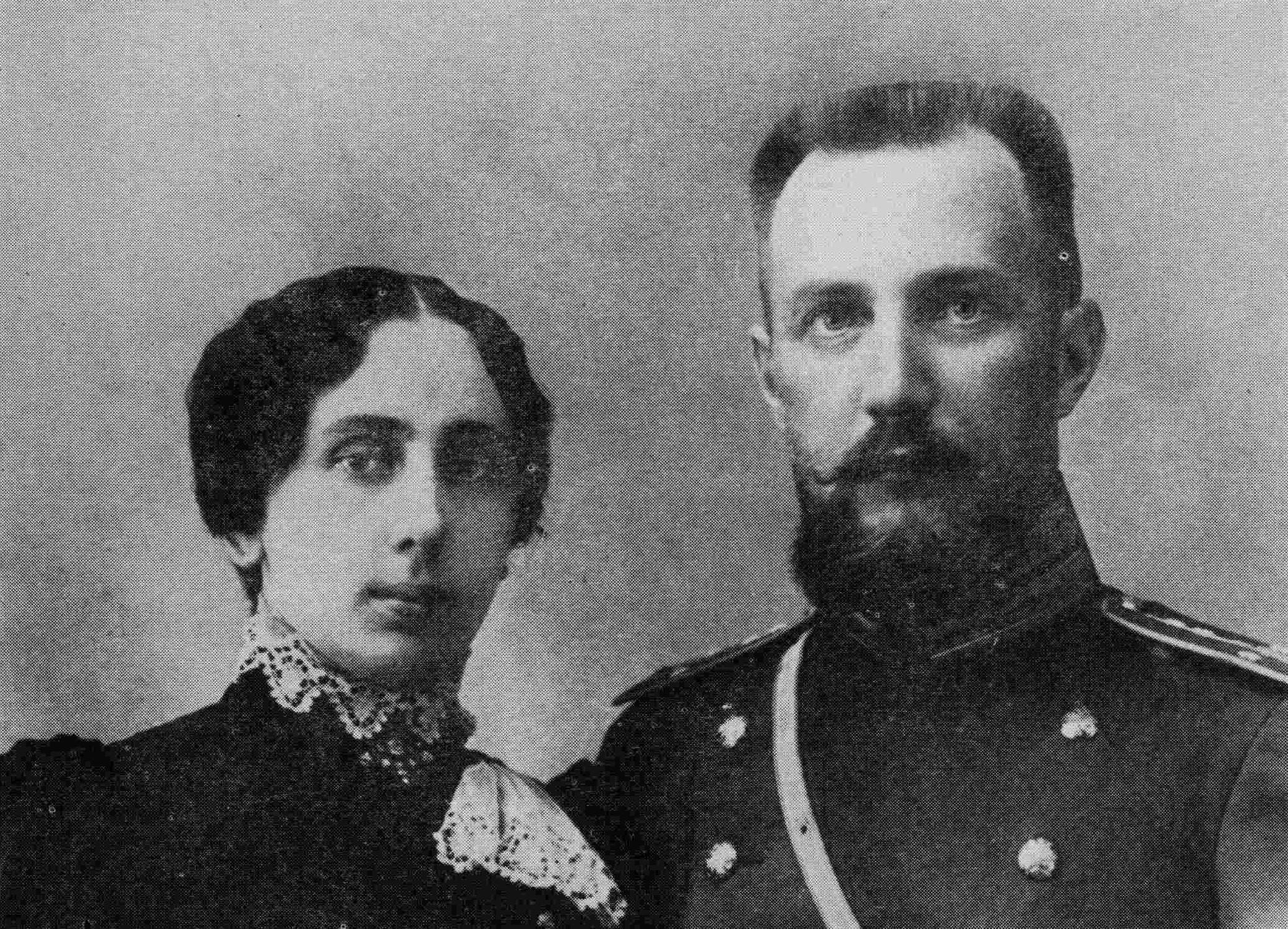 Russian and ukrainian general Vladimir Sikevich with his wife (1904 year)